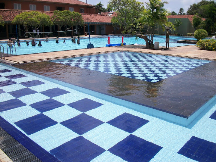 Resort swimming pool marawila